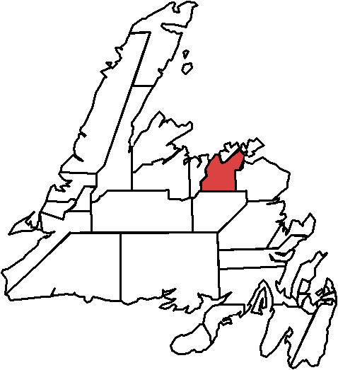 Maps based on images by Earl Warren, from the 2007 elections